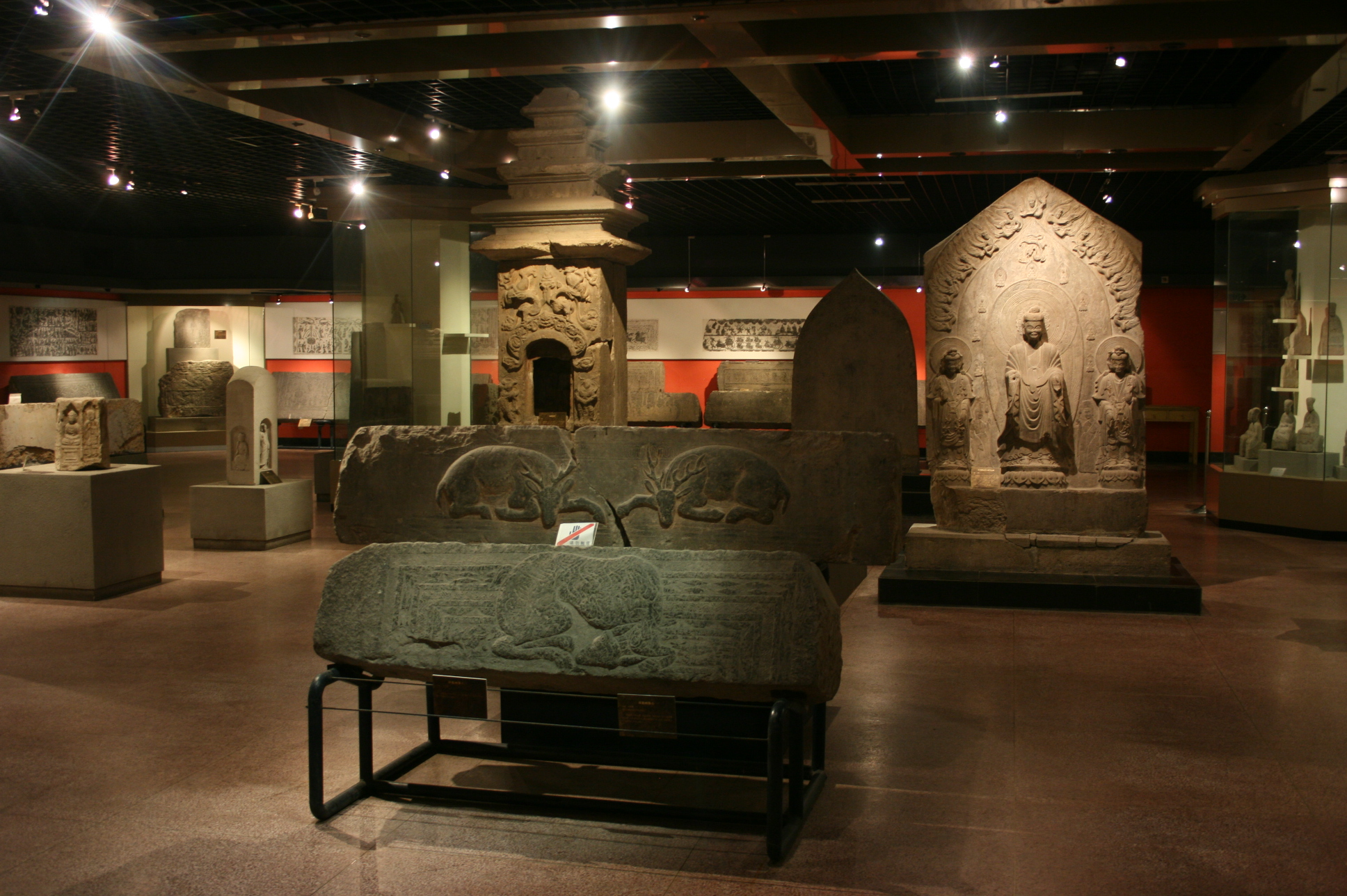 View into the permanent collection of the Shandong Provincial Museum in Jinan, Shandong, China.